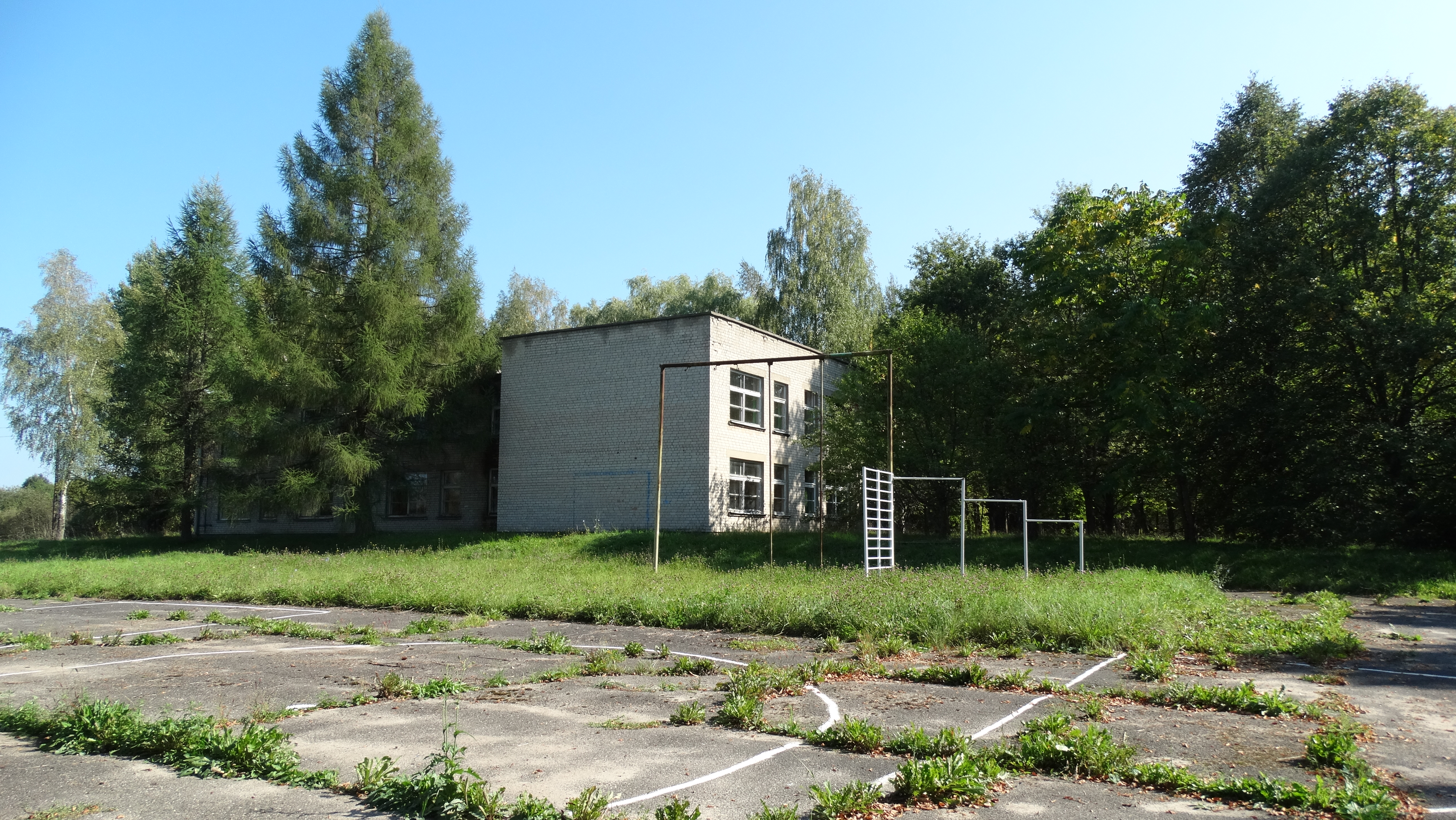 Former school, Samaniai, Zarasai District, Lithuania